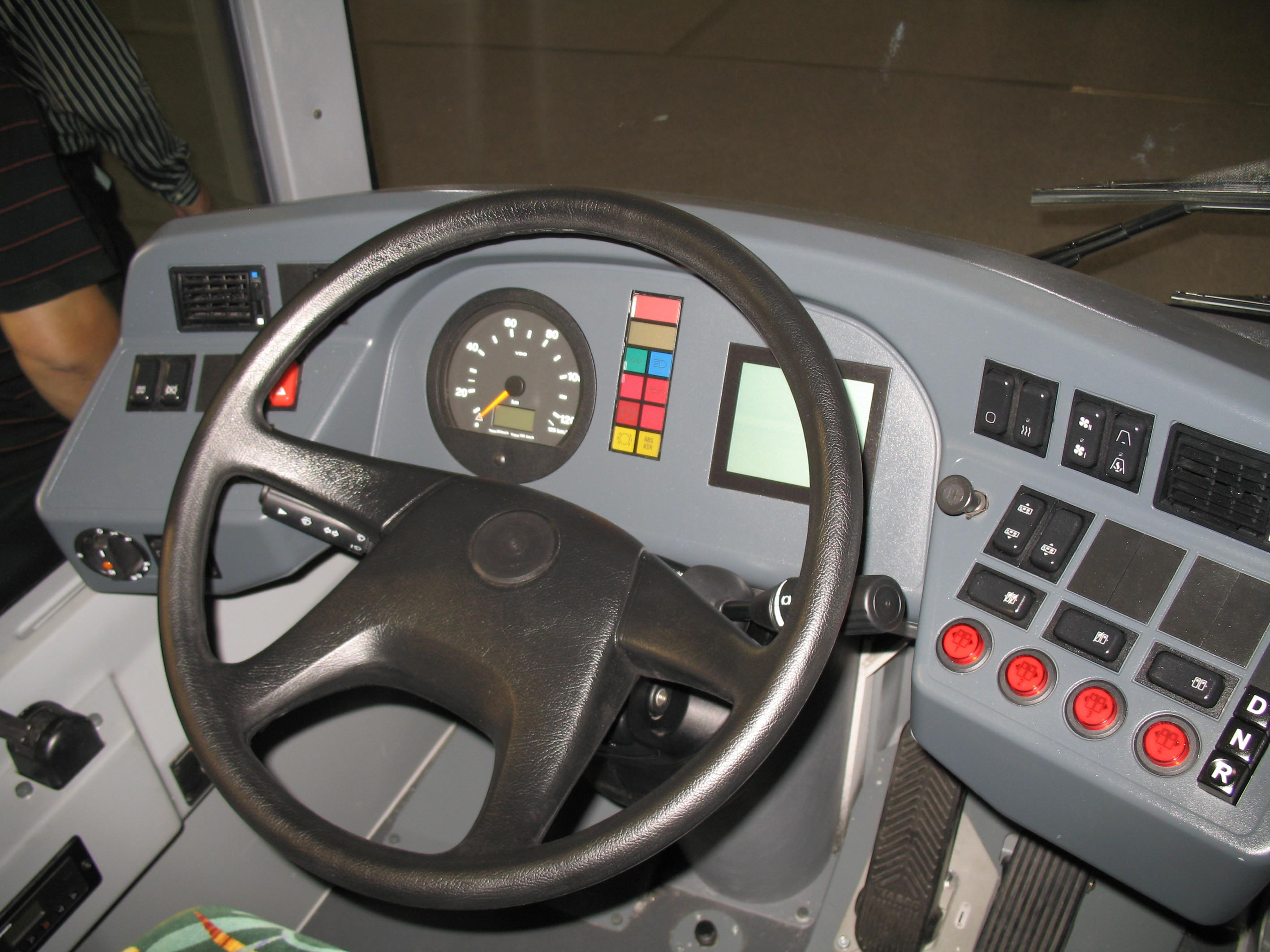 Solbus Solcity 12 city bus (SM series) cockpit in Kielce, Poland. Built 2009. Transexpo 2009. From XII 2009 - MPK Tarnów operator (#600).